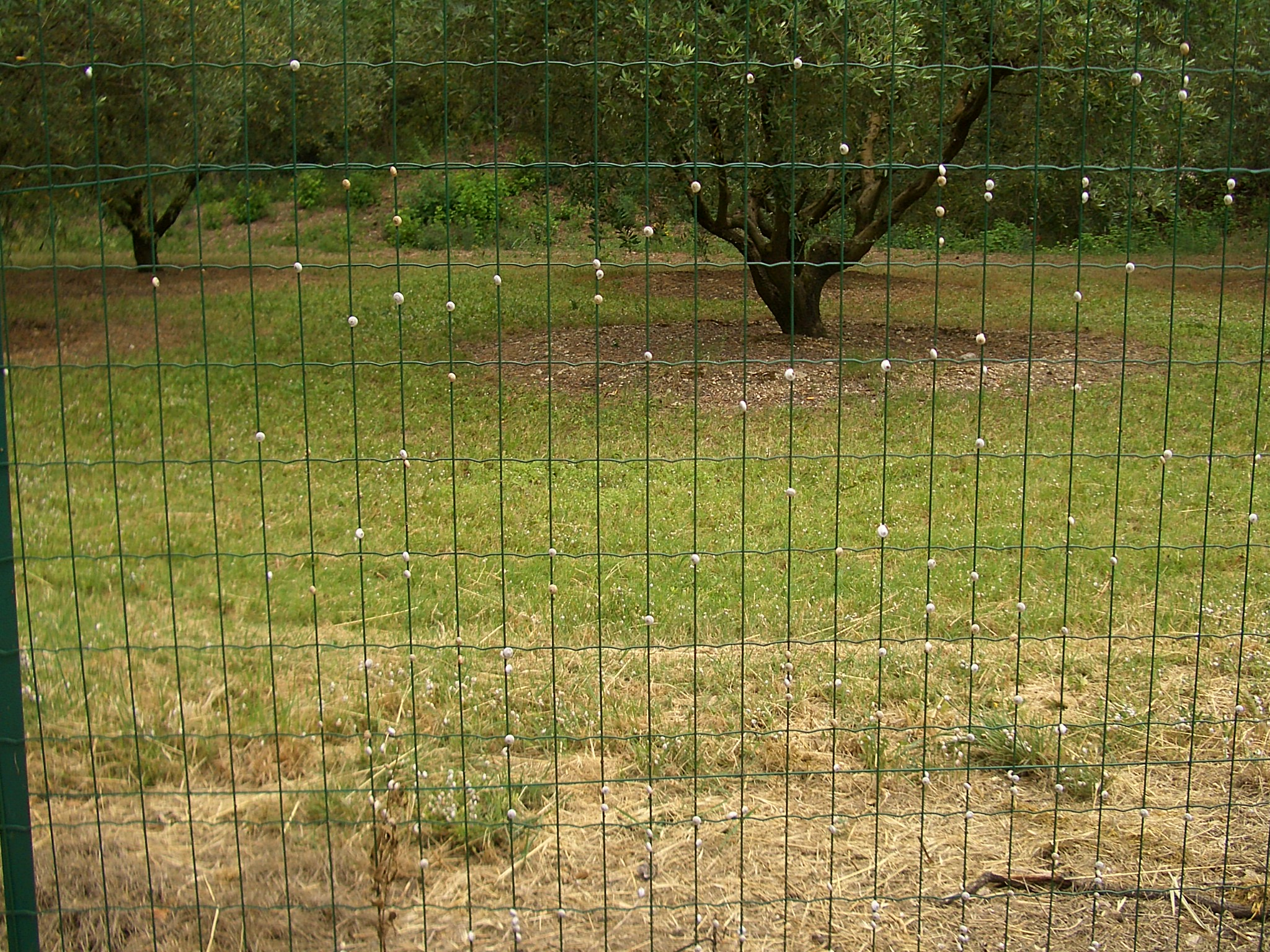 Small white French snails Cernuella virgata climb a fence en masse, near Saint-Rémy-de-Provence. The picture is taken in a nature area south of the city, not far from the Roman ruins at Glanum